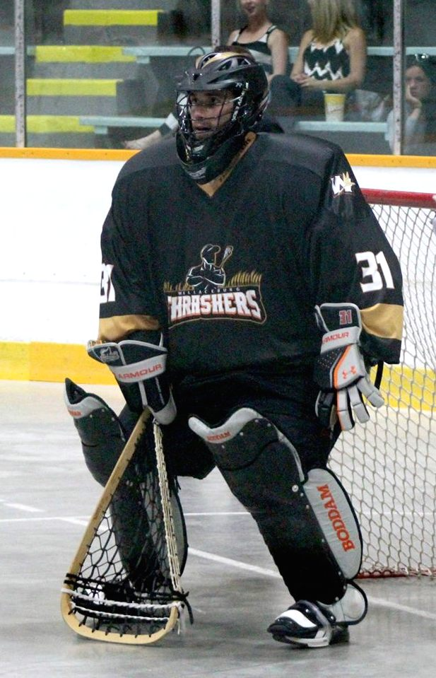 This photo was taken by Devan Mighton during the 2015 OSBLL season.